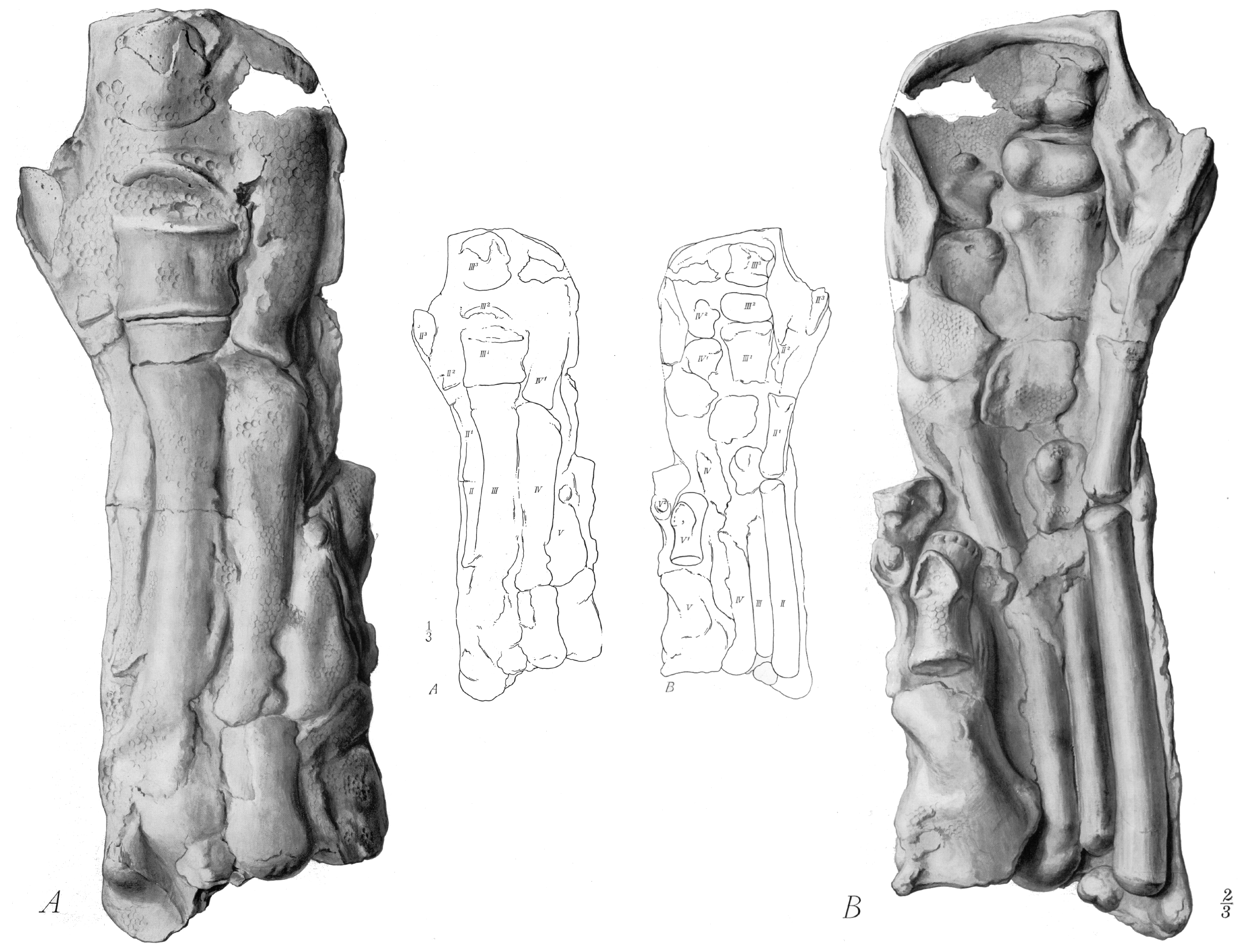 Drawings of the right hand of Edmontosaurus specimen AMNH 5060 in top (A) and bottom views (B). Skin impressions are visible.